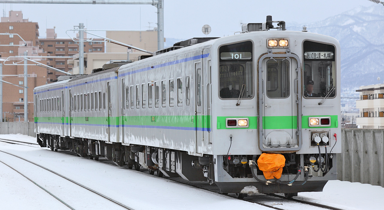 A JR Hokkaido 141 series DMU set formed of Kiha 143 + Kisaha 144 + Kiha 143 between Shinkawa and Shin-kotoni stations on the Sassho Line